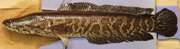 Northern snakehead (Channa argus) cought by live bait in Panama City beach